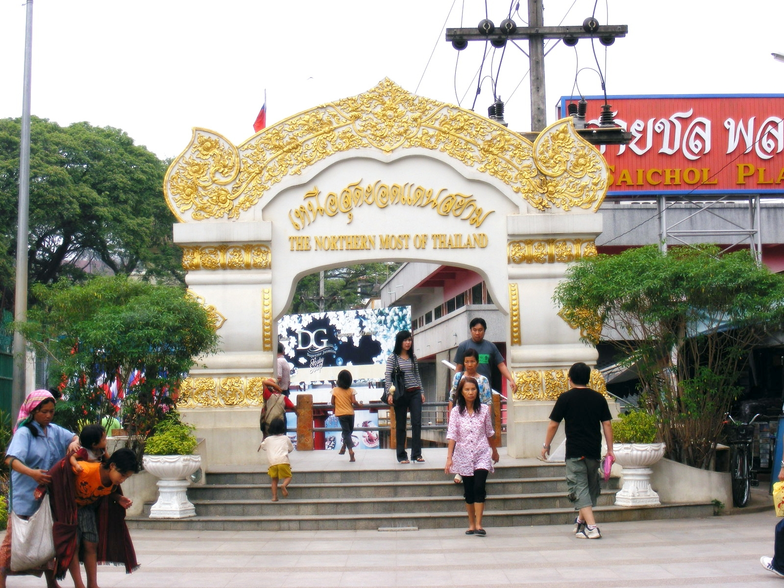 Northmost point of Thailand monument in Mae Sai.